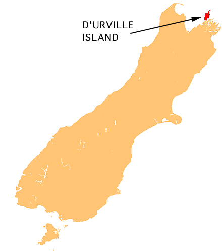 Location map showing D'Urville Island, New Zealand